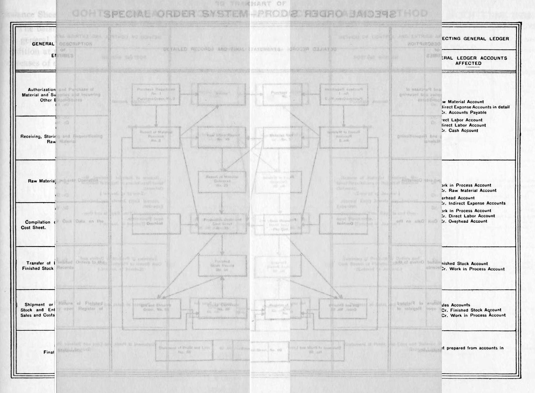 Special order system flow chart, 1913 (fragments)